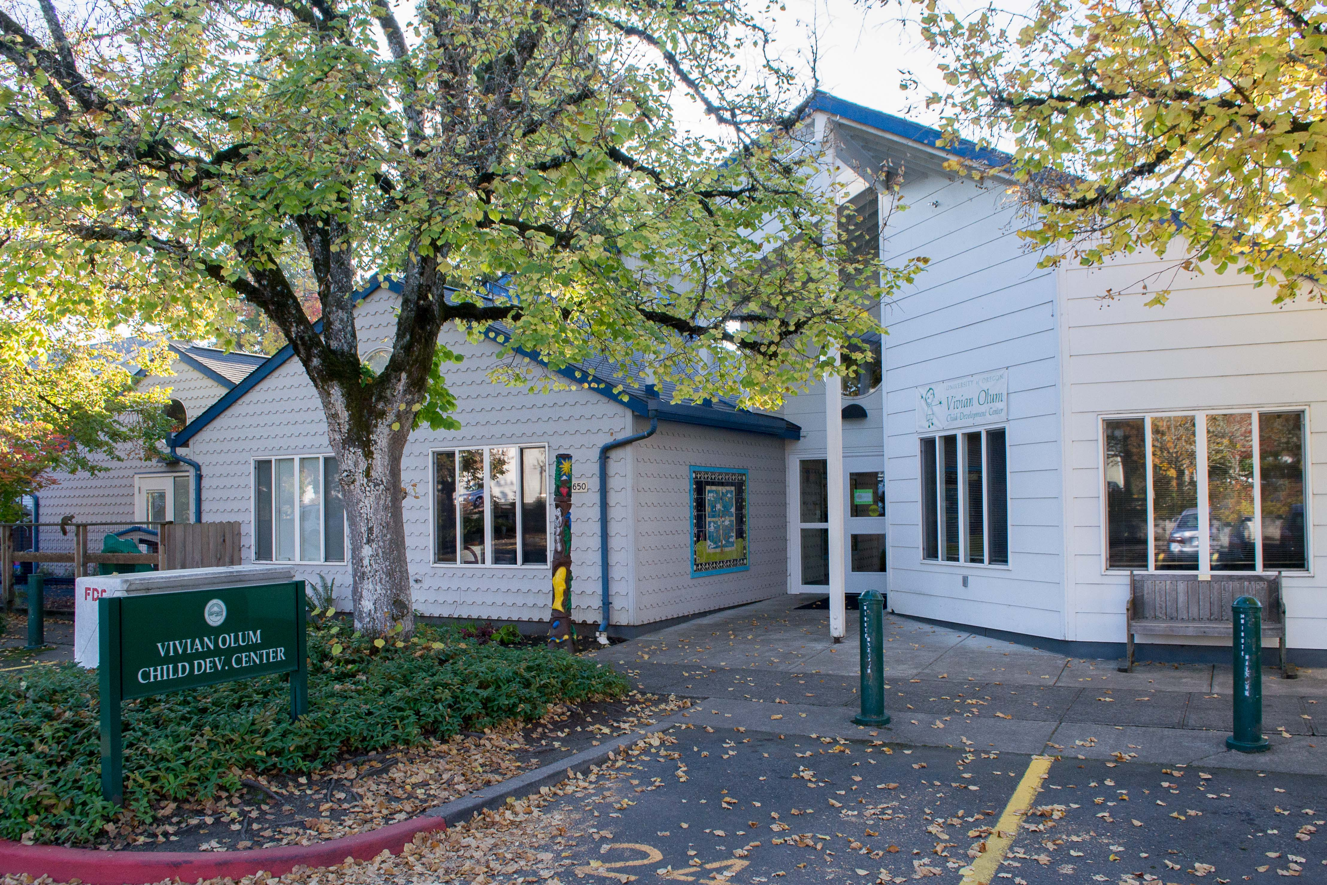 The Vivian Olum Child Development Center at the University of Oregon